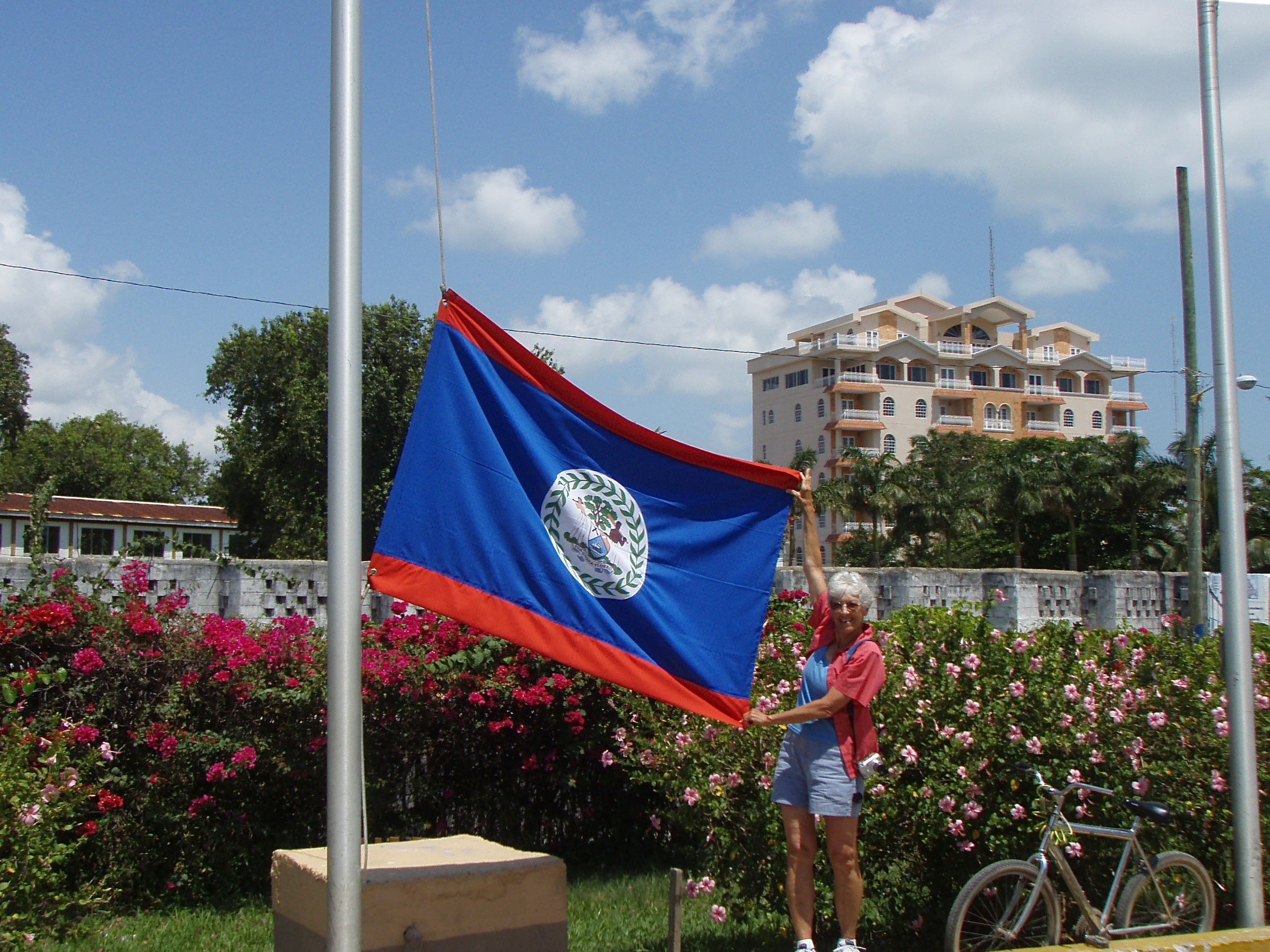 The security were so nice to lower the flag for Norma to hold it so I could get this photo. Three others seemed very pleased we wanted to get this picture and were proud of their country.